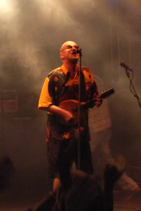 Gero Drnek from Fury in the Slaughterhouse